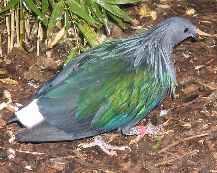 Nicobar Pigeon at Bristol Zoo, Bristol, England. Found in SE Asia, New Guinea, Nicobar Island, Philippines.